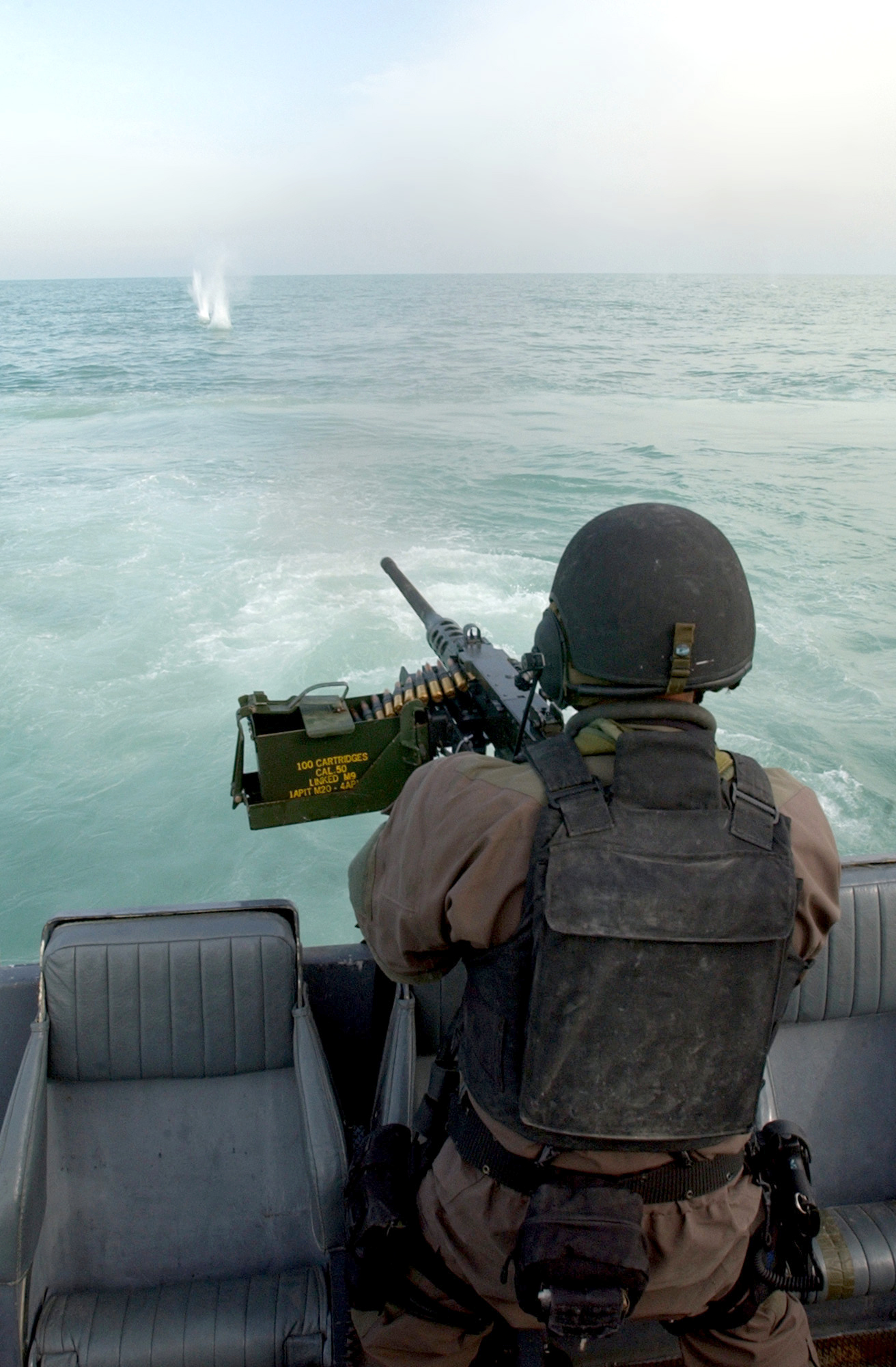 Central Command Area of Responsibility – A Naval Special Warfare combatant-craft crewman fires his 50 caliber machine gun from a Rigid Hull Inflatable Boat (RHIB) while operating at a forward location. A RHIB is a high-speed, high- buoyancy, extreme-weather craft assigned the primary mission of ship-to-shore insertion/extraction of SEAL tactical elements. The RHIB is equipped with 50 caliber machine guns and supports Naval Special Warfare Operations.